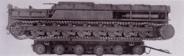 Karl-Gerät on it Culemeyer-Strassenfahrzeug trailer